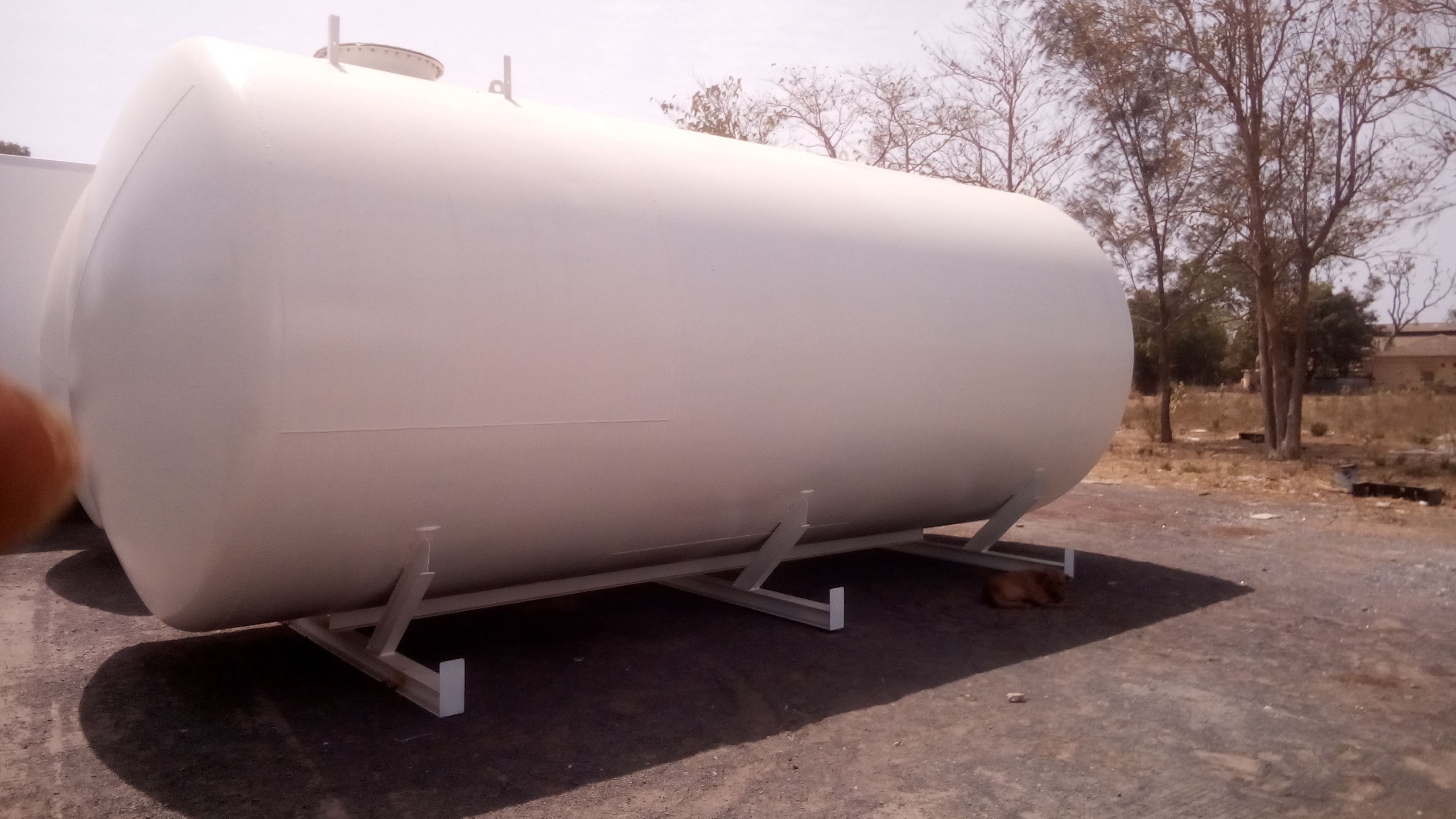 Petrol transport in senegal made by SENBUS SA This is an image with the theme "Africa on the Move or Transport" from: Senegal